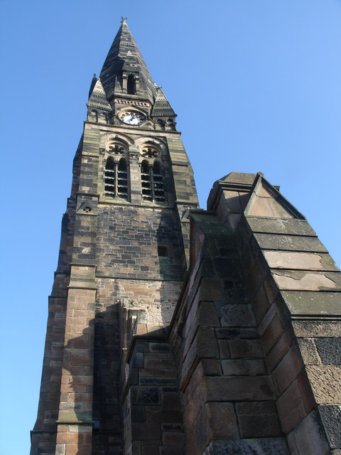 Tower and spire of the former Townhead-Blochairn Church of Scotland, Roystonhill, Glasgow